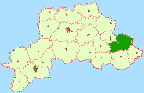 Mogilev Region map by Al Silonov